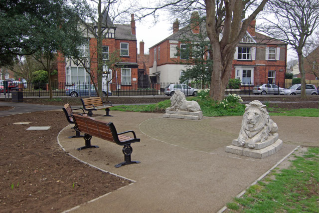 Hornsea Memorial Gardens, Hornsea, East Riding of Yorkshire, England.The two lions at the eastern end of the gardens have the unlikely names of Bill and Mike - although I have no idea which is which. They once used to stand outside the entrance to the Criterion Cinema in Hull.